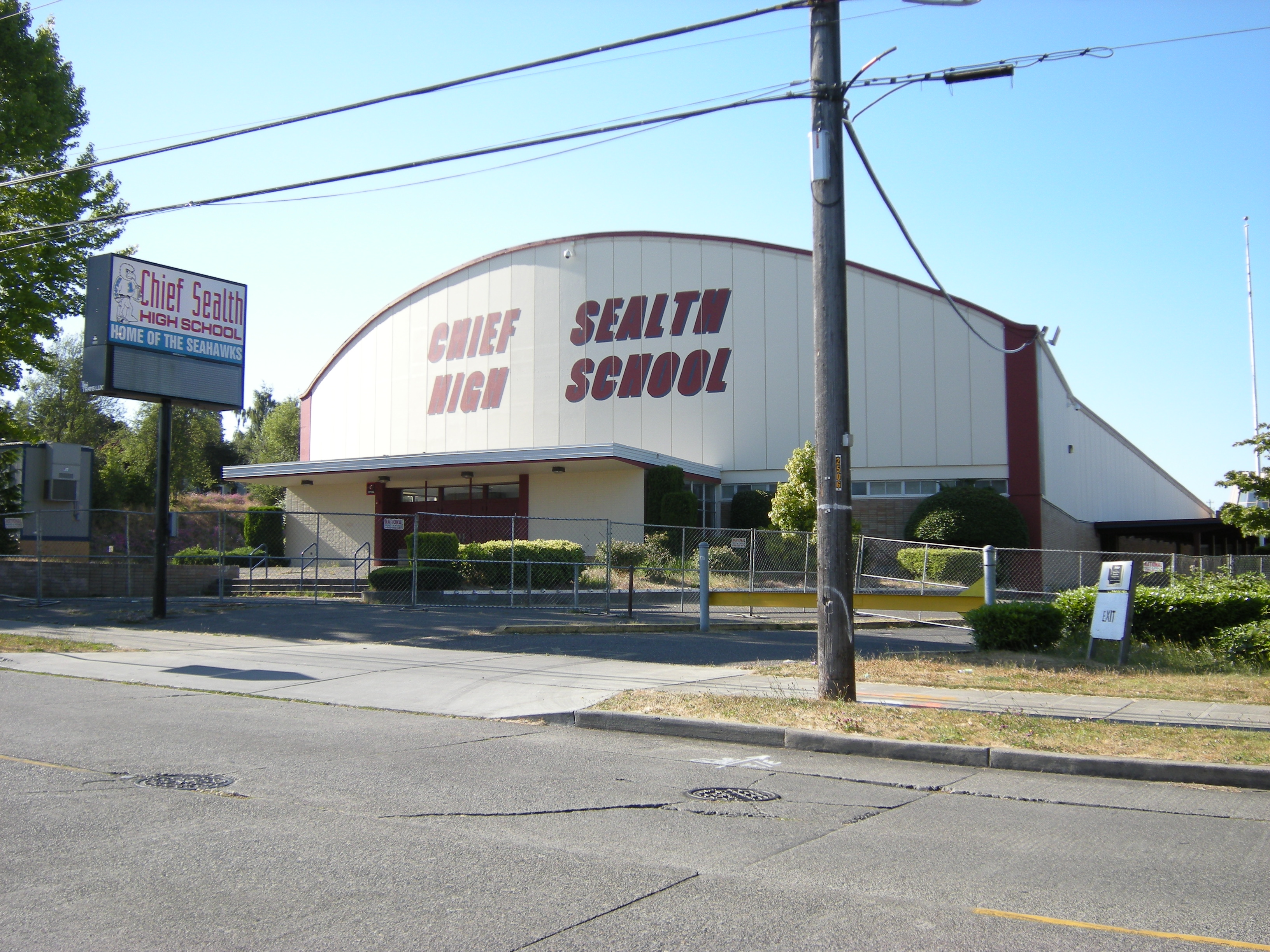 Chief Sealth High School, West Seattle, Seattle, Washington.